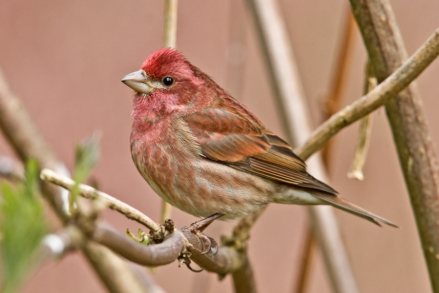 Carpodacus purpureus, male, Black Creek, southern Vancouver Island